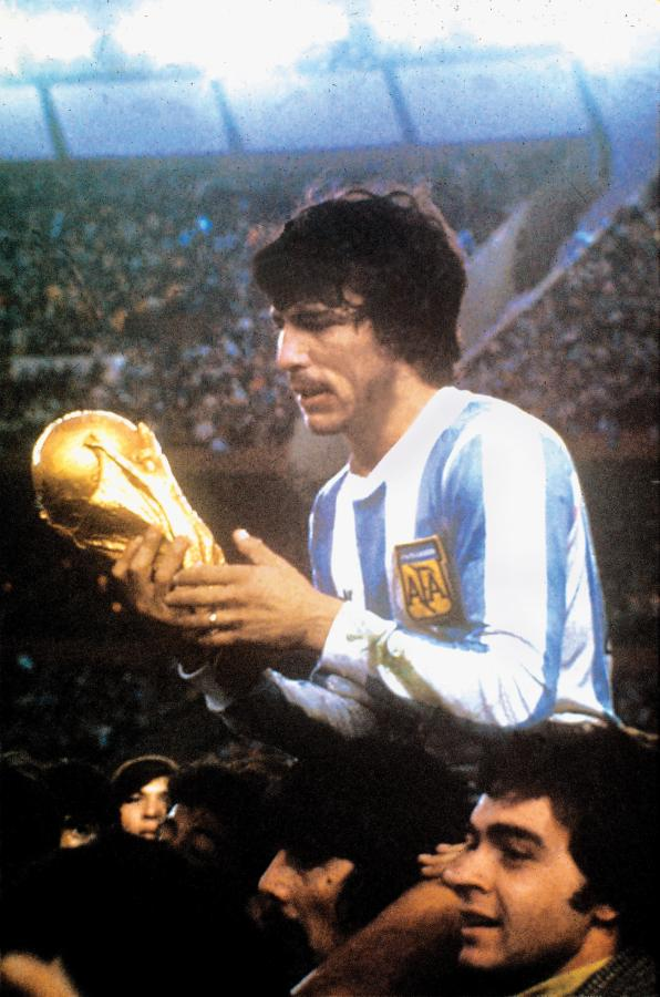 Daniel Passarella with the World Cup won with Argentina